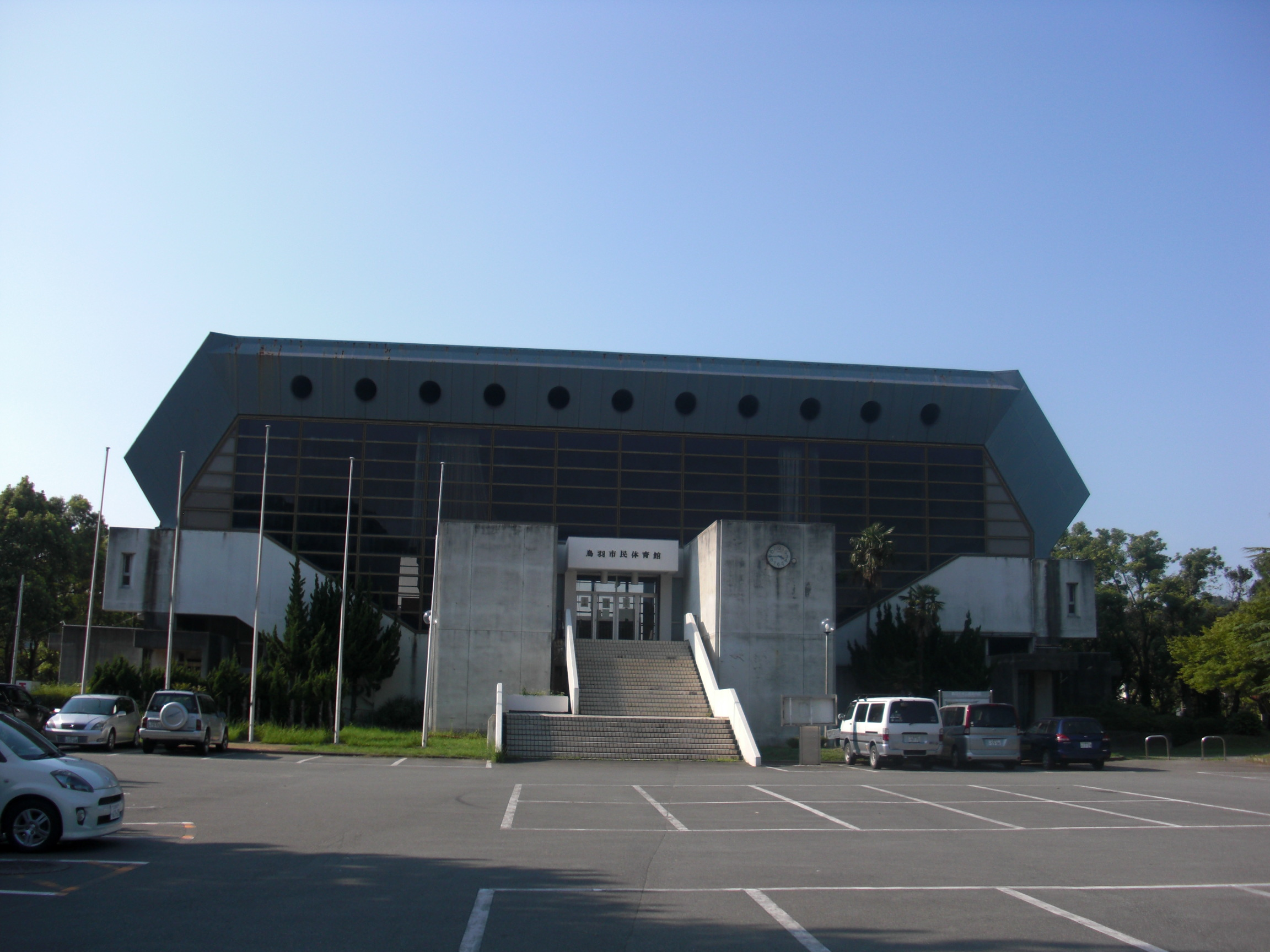 This is the Toba Citizen Gym, which is located in Toba, Mie, Japan.